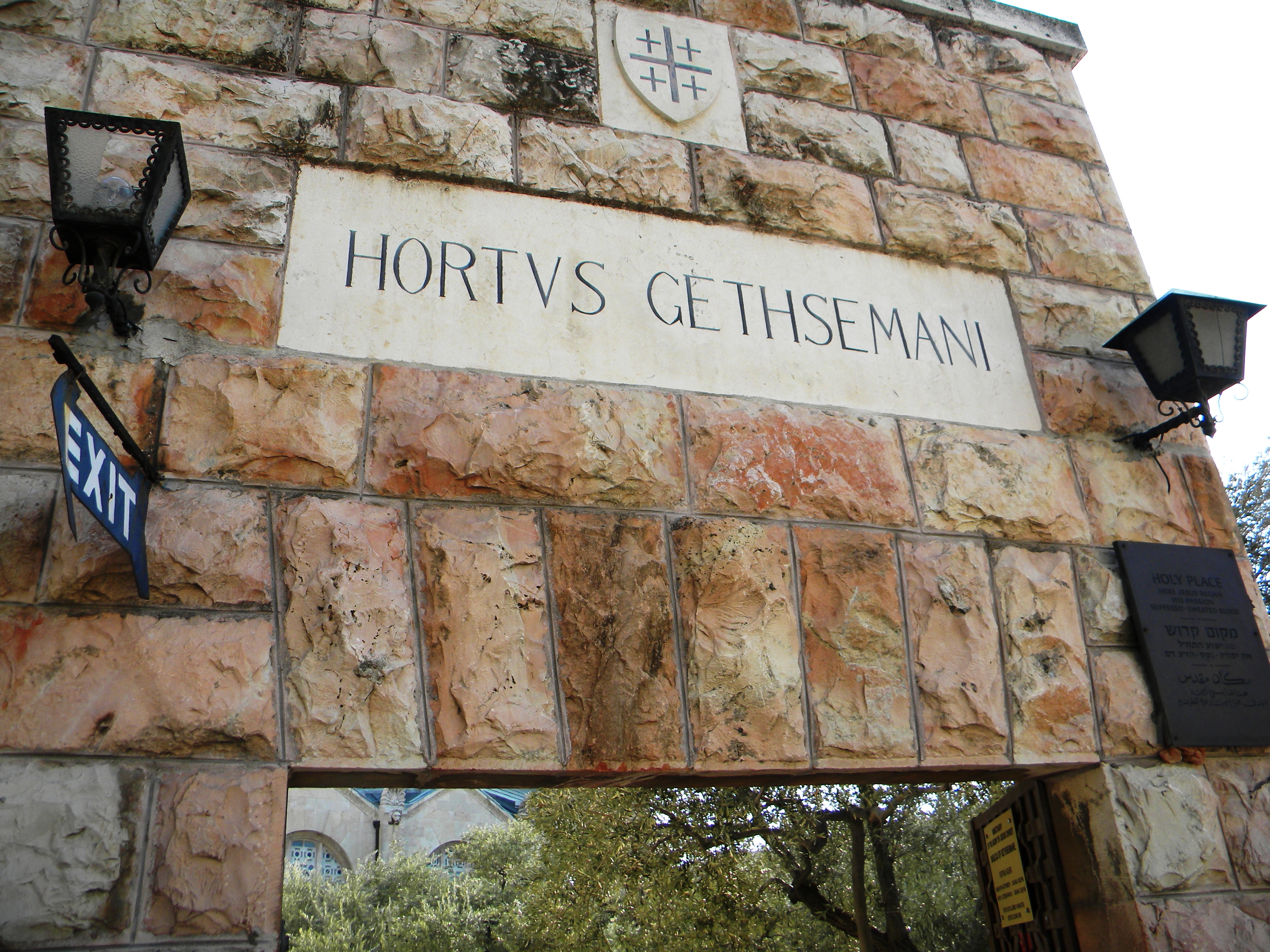 Jerusalem, Olive Mountain (Gethsimani Garden); 11-3000-100